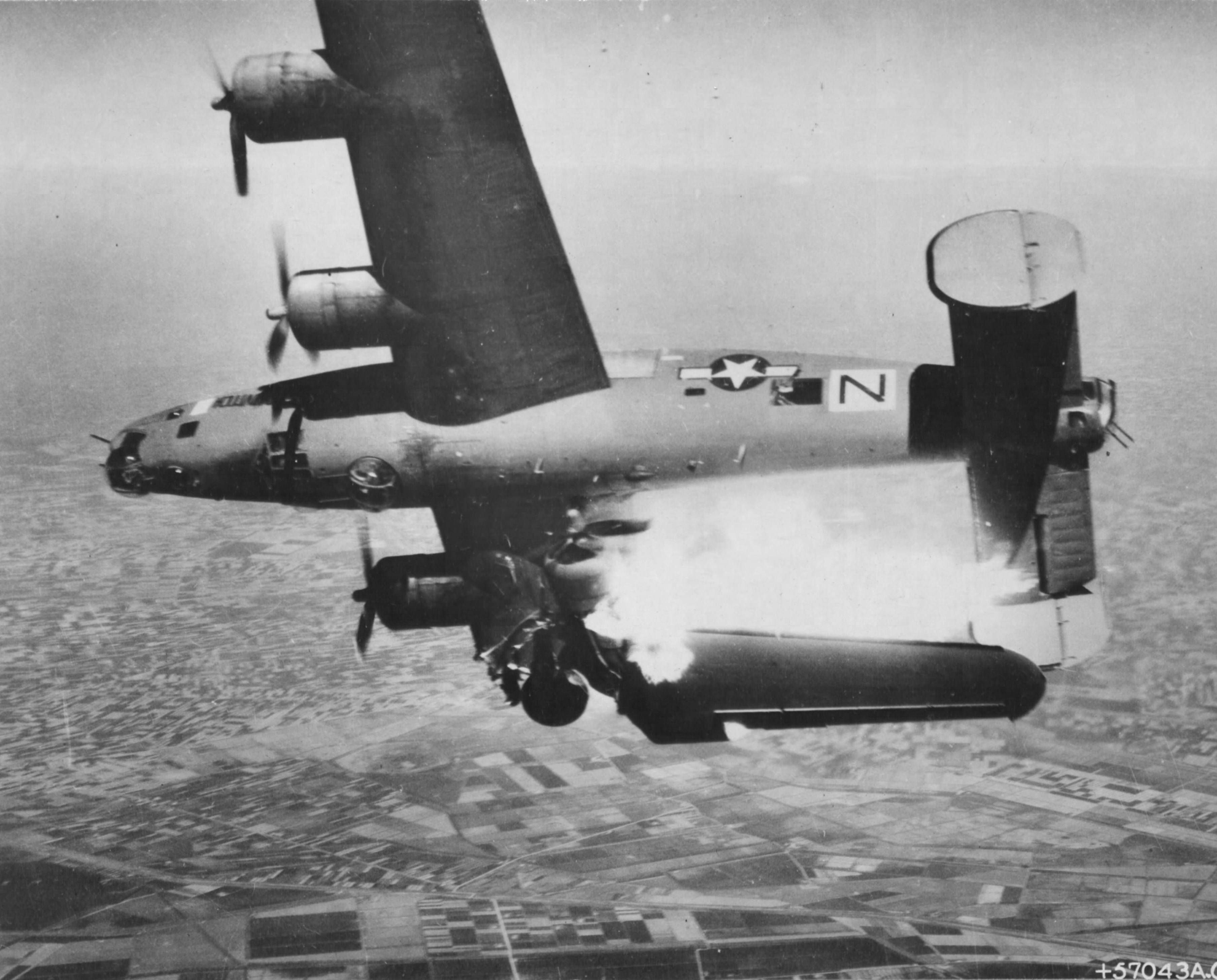 The U.S. Army Air Force Consolidated B-24L-10-FO Liberator, s/n 44-49710, named "STEVENOVICH II", of the 779th Bombardment Squadron, 464th Bombardment Group, shot down by Flak during an attack on ground troops near Lugo, Emilia Romagna, Italy, on 10 April 1945.[1], see official loss report MACR 13711 [2]